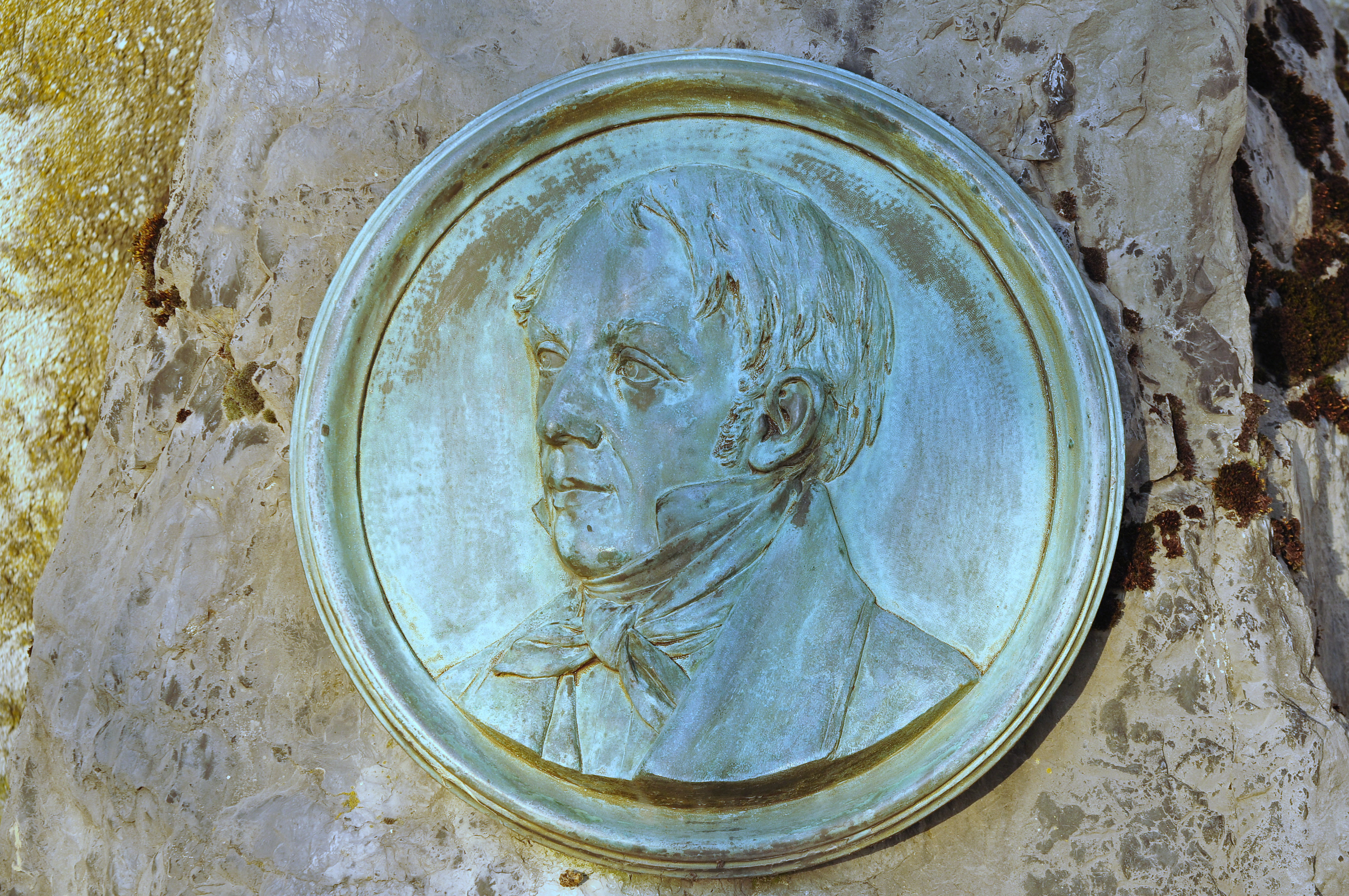 Franz Josef Greith (Composer; * 1799; † 1869) memorial situated at Bühler-Allee towards Endingerhorn nearby Kapuzinerkloster in Rapperswil (Switzerland).